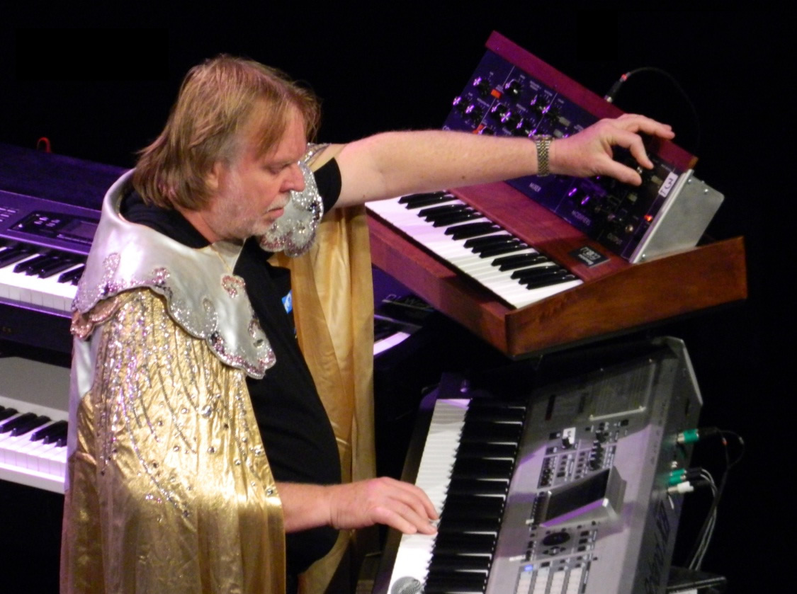 I took that picture on a Rick Wakeman´s show in Sao Paulo, Brazil. November 21st, 2012. I posted that picture on other sites, like: My personal facebook; my blog "Jornalisticamente falando"; " " internet board. My name is Aurelio Moraes. I am a journalist and a photographer. This is my own work.